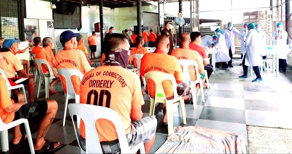 NCRPO health service team led by PLT Rhodelyn Dingrat , also conduct a COVID-19 Rapid Diagnostic Testing on 200 elderly PDLs (Person Deprived of Liberty) from the Maximum Security Compound of the NBP. (Photo courtesy of BuCor)